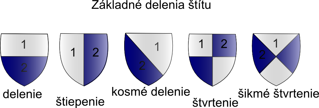 These are some basic examples of shield divisions used in heraldry. The numbers in fields are showing the order in the blason.